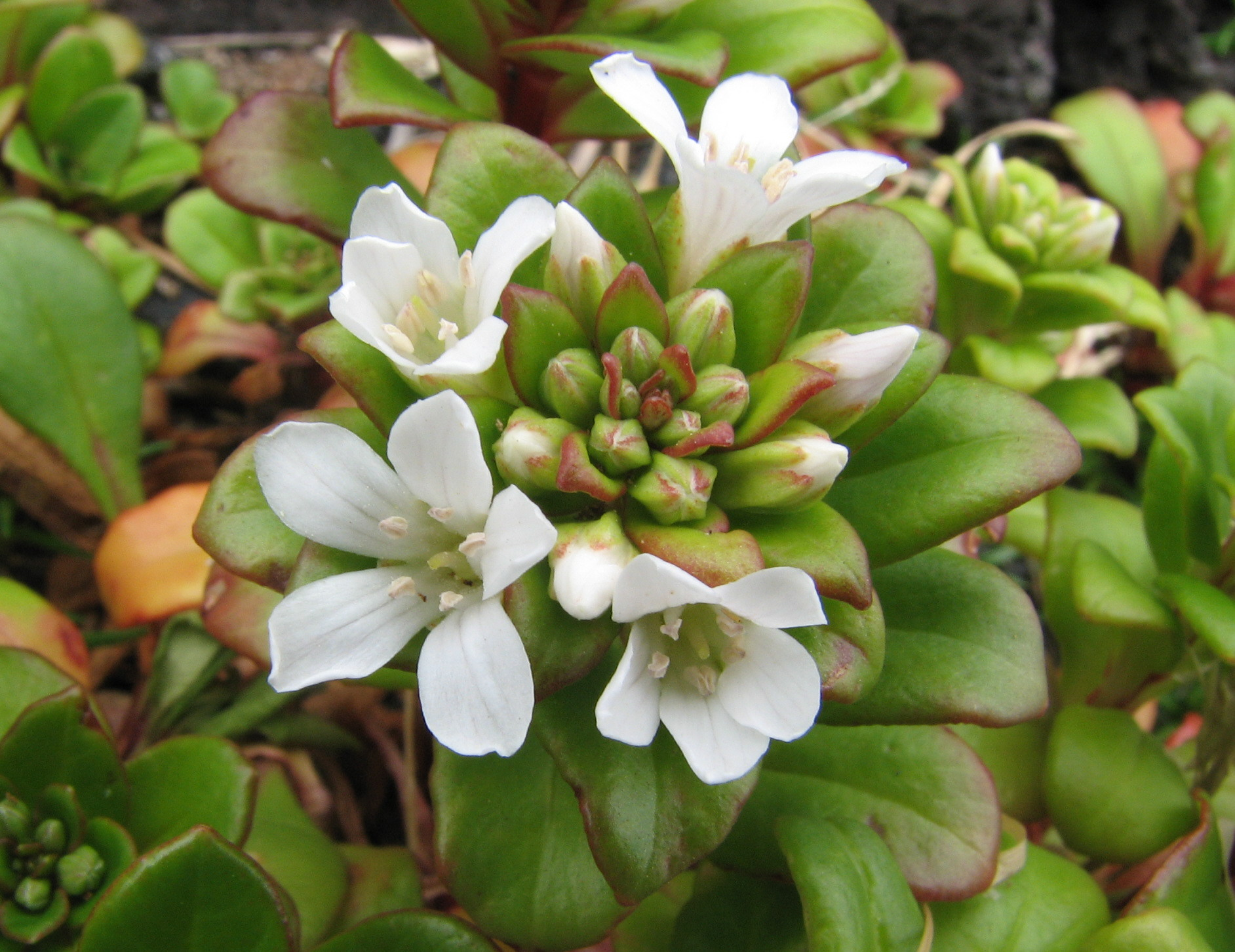 Lysimachia mauritiana at Hachijo is. Tokyo Japan.